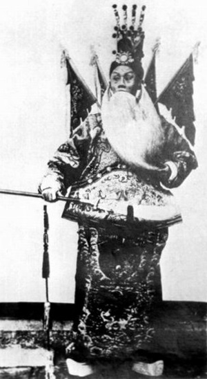 Beijing Opera actor Tan Xinpei in the first Chinese movie Dingjunshan (1905)